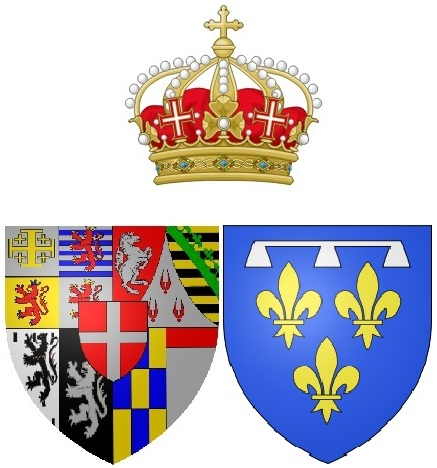 Arms of Anne Marie d'Orléans (1669-1728), Queen of Sardinia